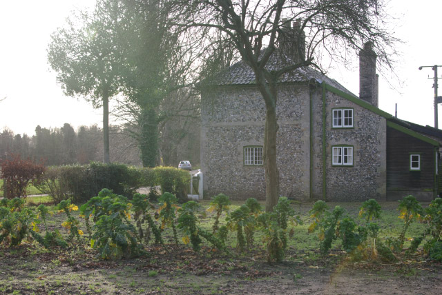 Cottages by Hut Covert Rather remote cottages on the narrow lane leading south from West Harling Heath towards Riddlesworth Hall, close to where the road passes through Hut Covert. There is a splendid crop of Brussels sprouts in the garden.